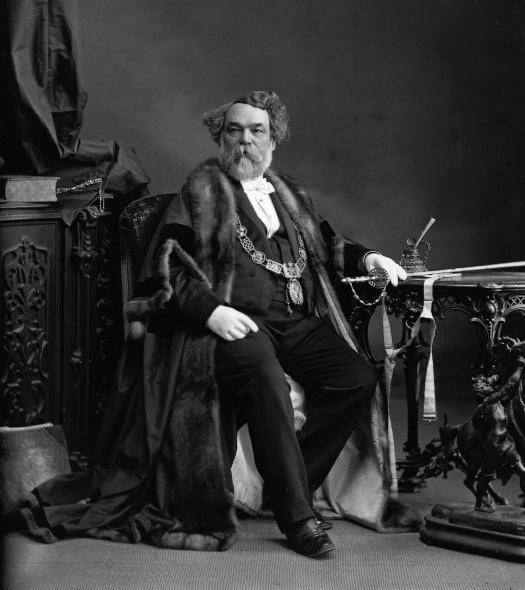 Photograph, Mayor Bernard, Montreal, QC, 1873, William Notman (1826-1891), Silver salts on paper mounted on paper - Albumen process - 17 x 12 cm